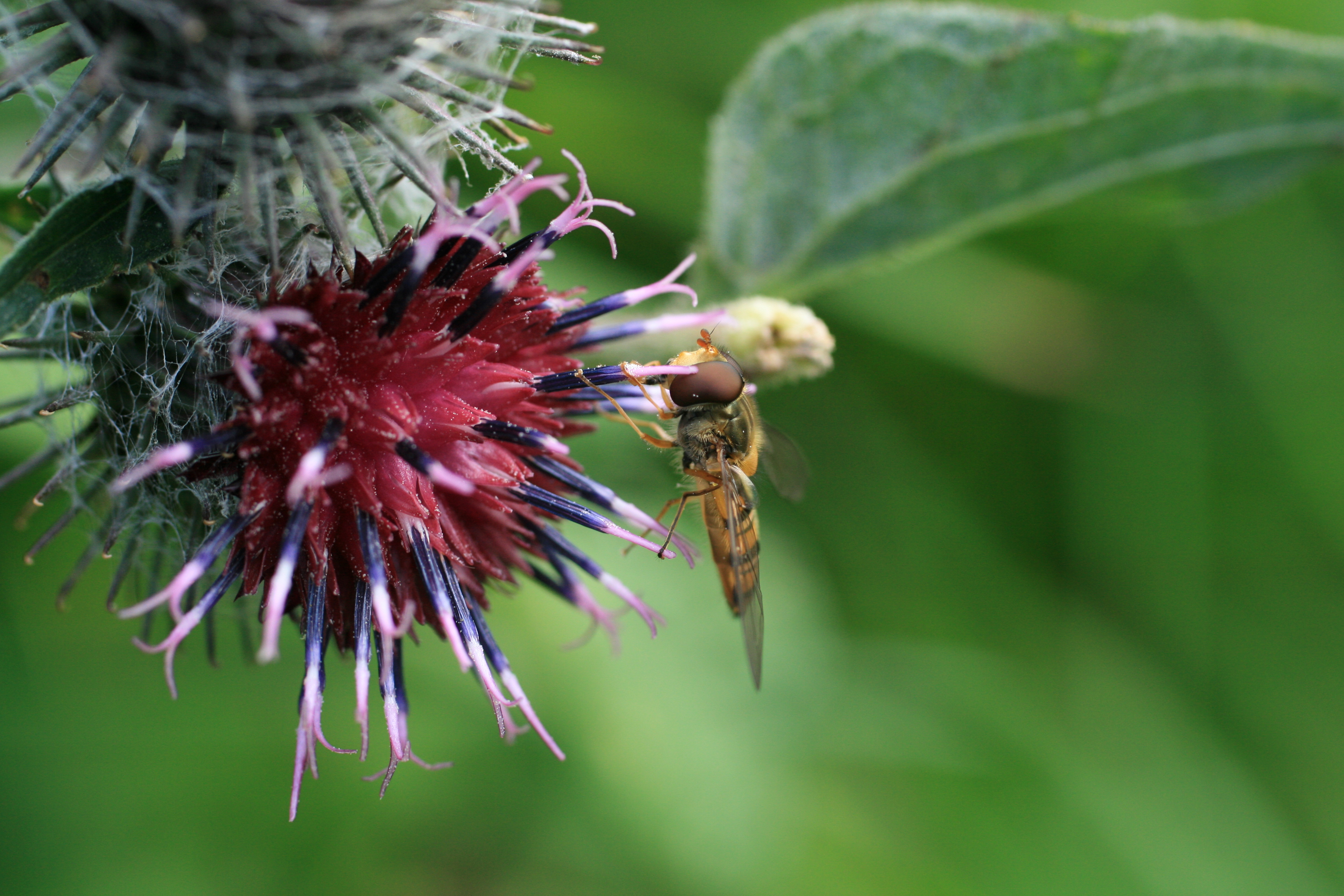 Woolly burdock with hoverfly